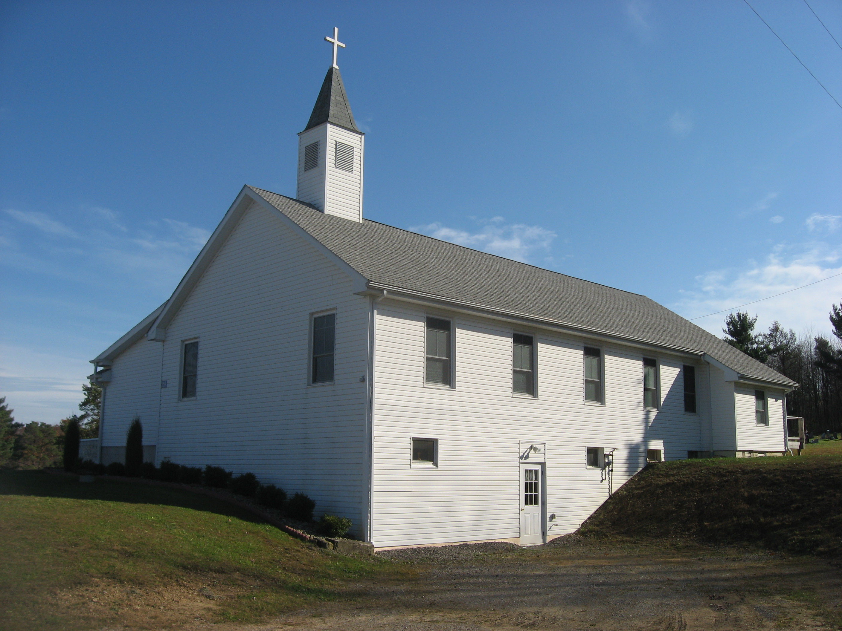 Western side and front of the Mount Joy United Methodist Church, located at 159 Mount Joy Road south of Knox in Beaver Township, Clarion County, Pennsylvania, United States.